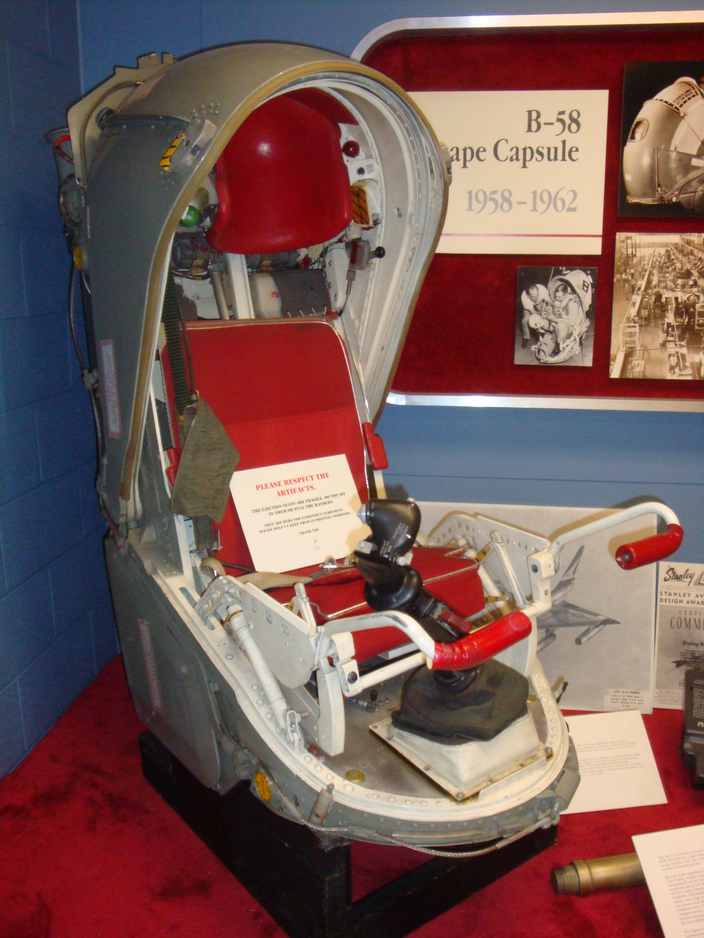 Escape capsule of a Convair B-58 at the Wings Over the Rockies Air and Space Museum